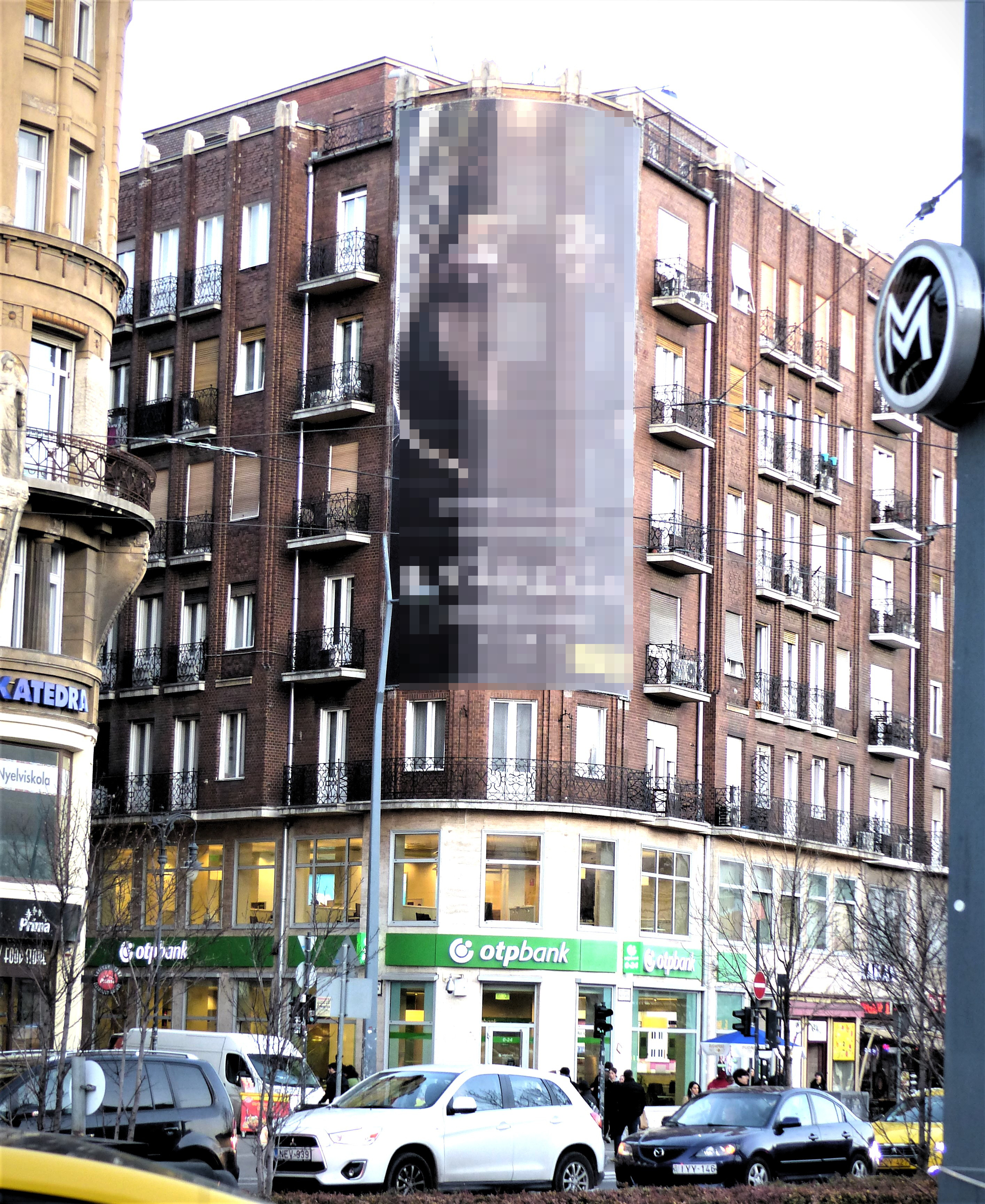 Taken on the 27th of November, 2017. Károly körút 15 -17 szám, Budapest, Central Europe.